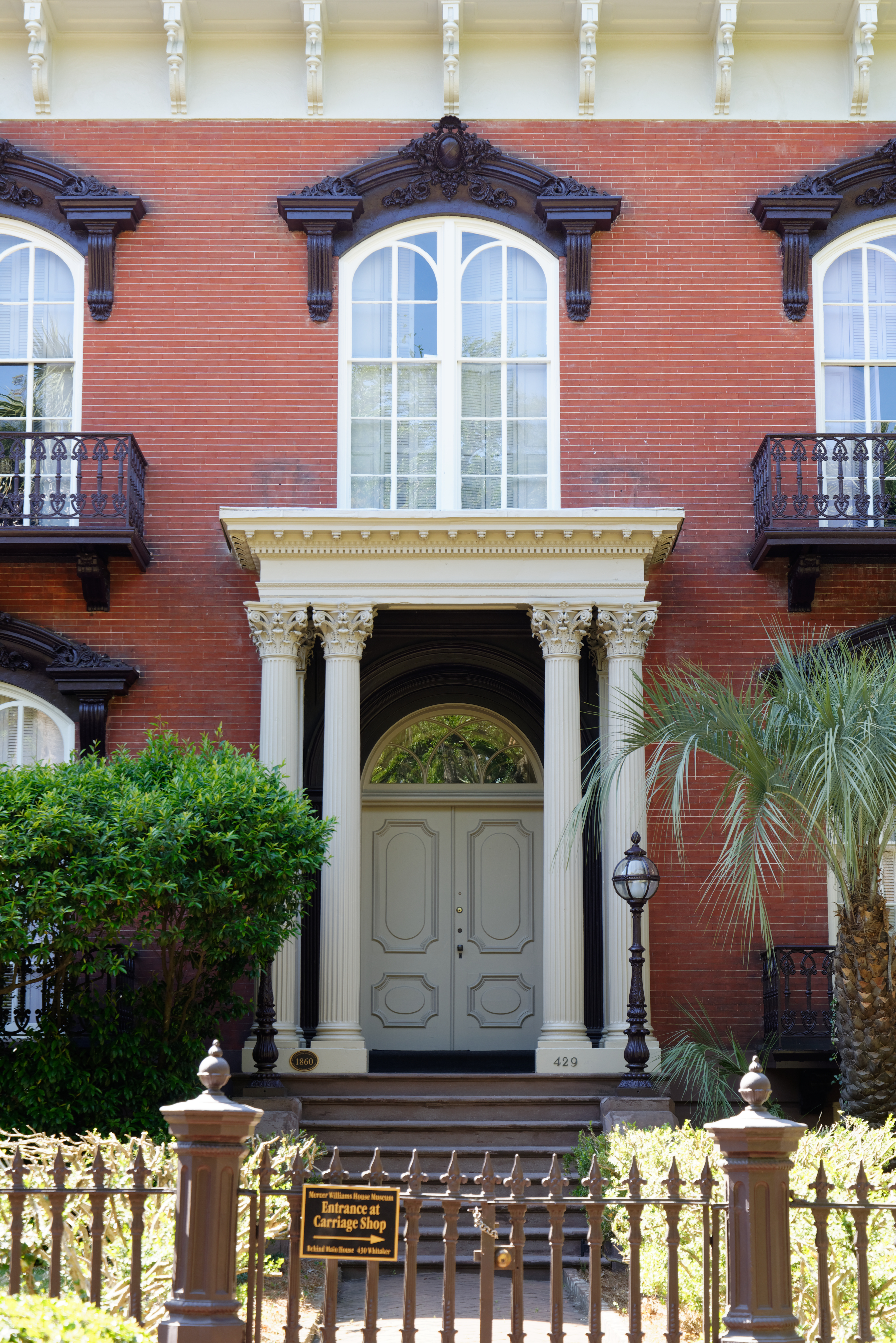 Mercer-Williams House, Savannah, Georgia, US